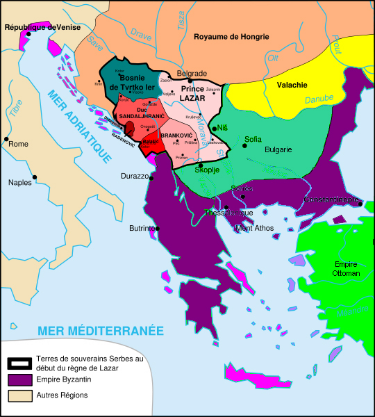 Serbian principalities at the beginning of Lazar's rule